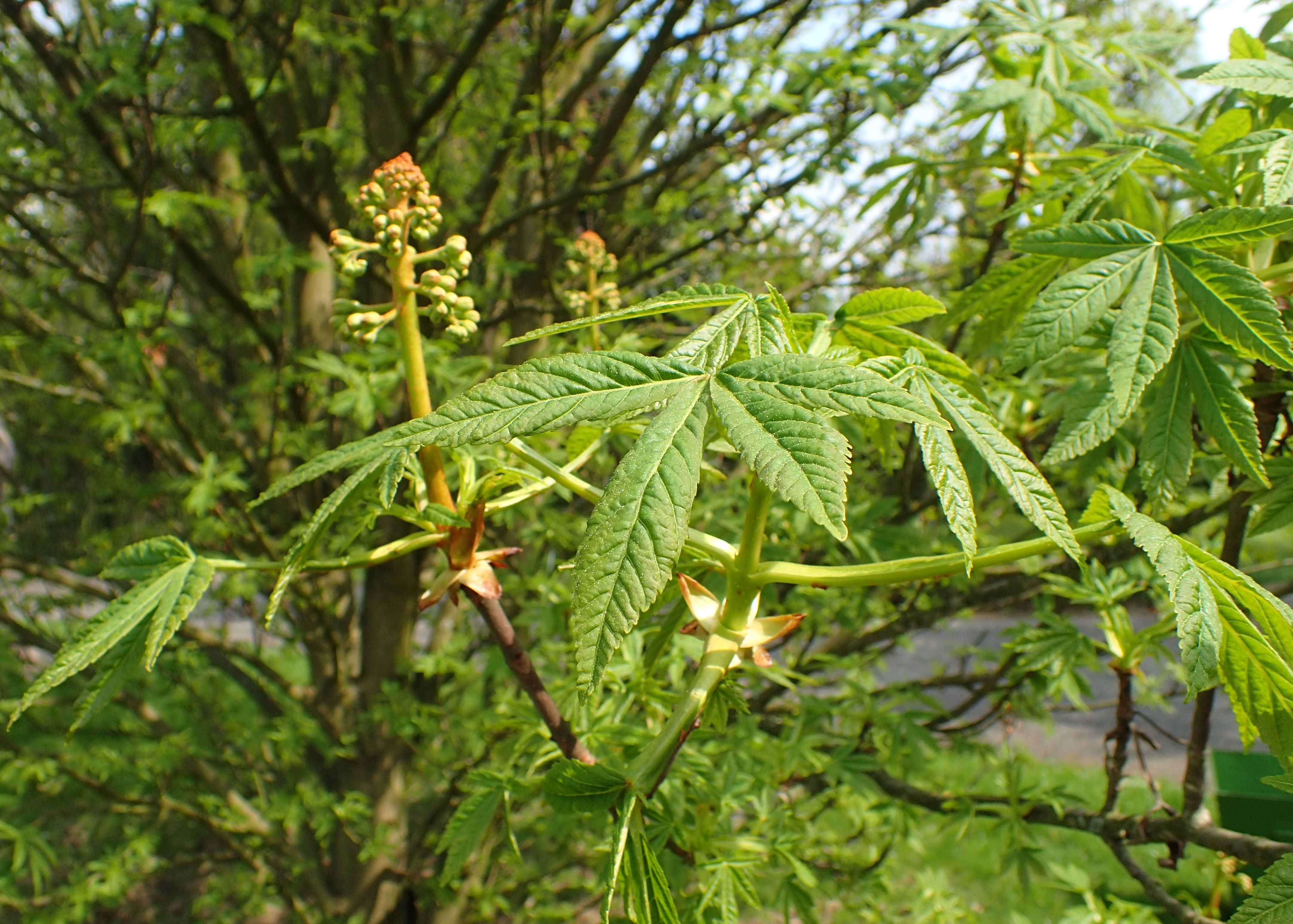 Aesculus hippocastanum 'Digitata' in PAN Botanical Garden in Warsaw